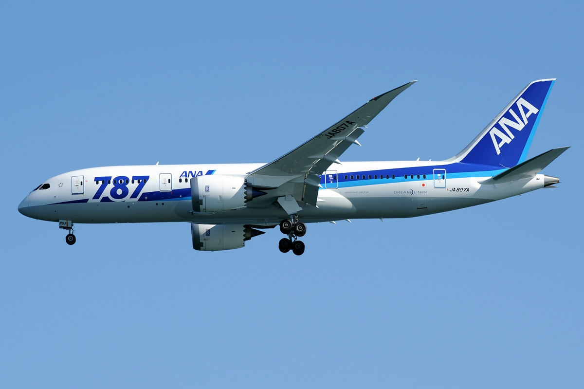 ANA 654